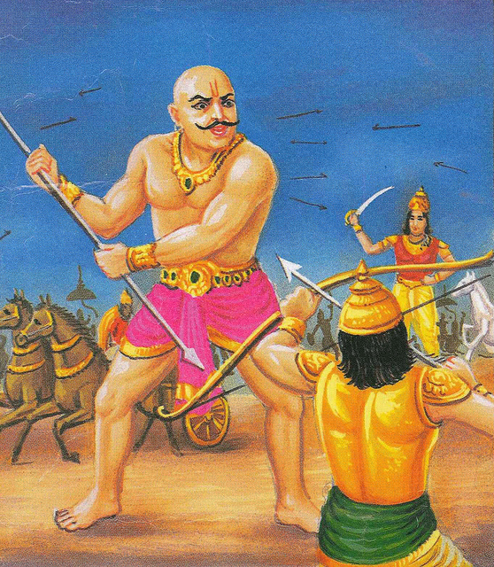 Karna Try to Kill Ghatotkacha